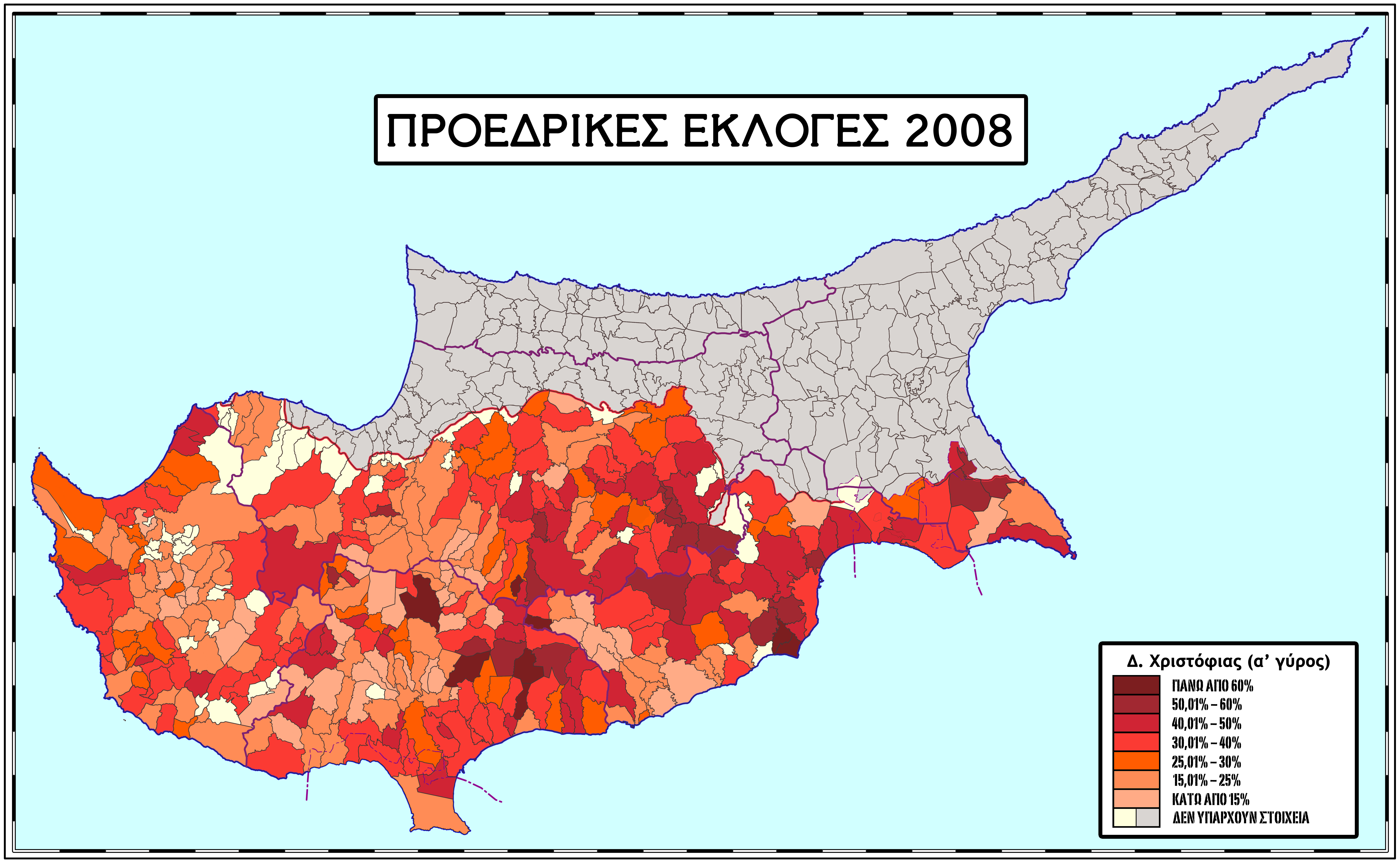 Demetris Christophias' percentages during the first round of the presidential elections in Cyprus 2008